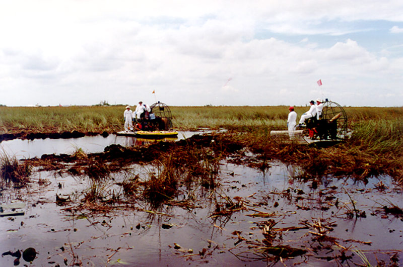 NTSB photos of ValuJet Flight 592 Recovery Scene